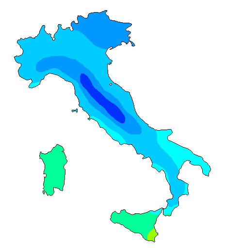 Map of daily sunshine hours in Italy in April